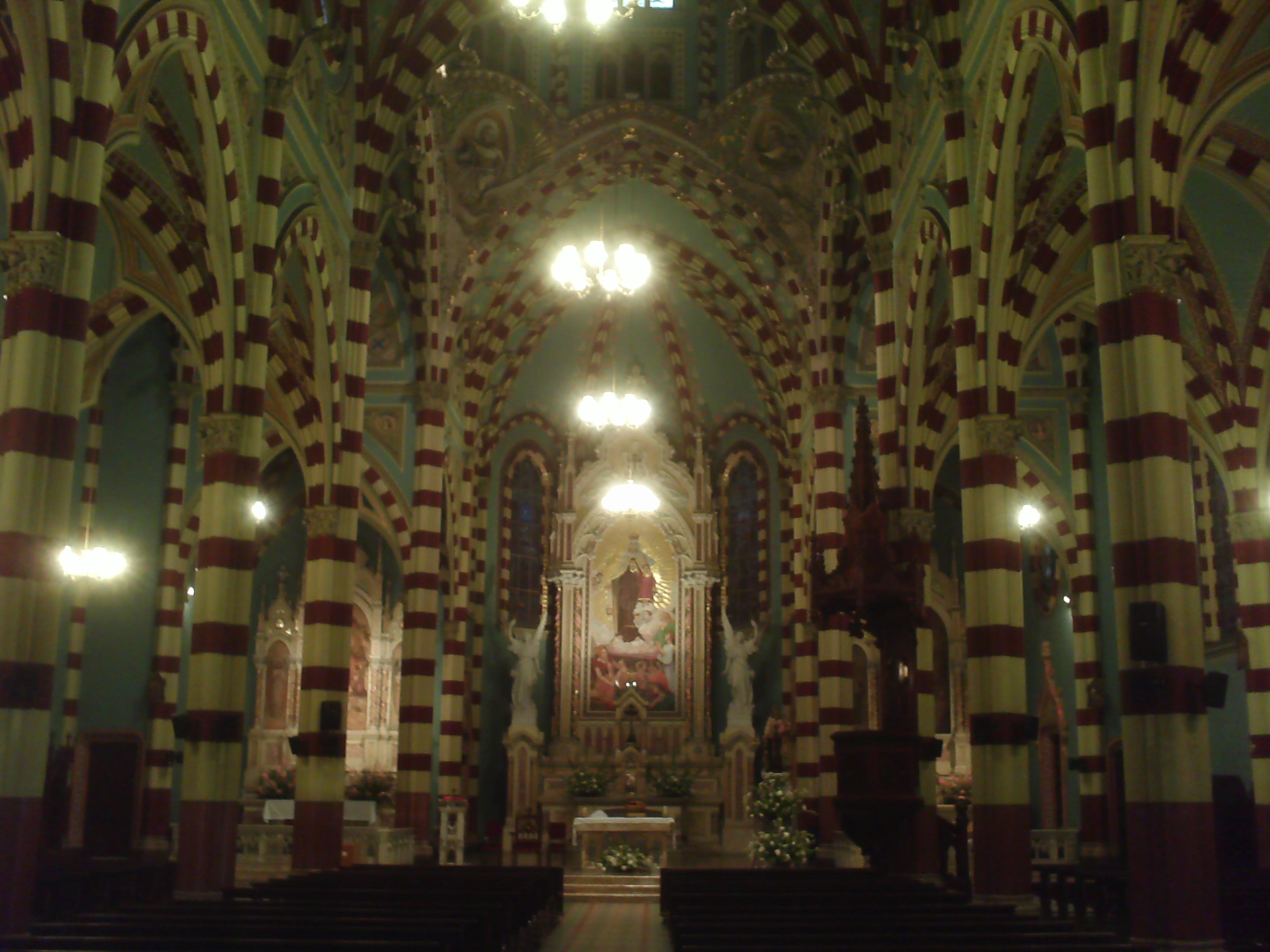 Interior view of the National Sanctuary of Our Lady of Carmen in Bogota (Colombia)